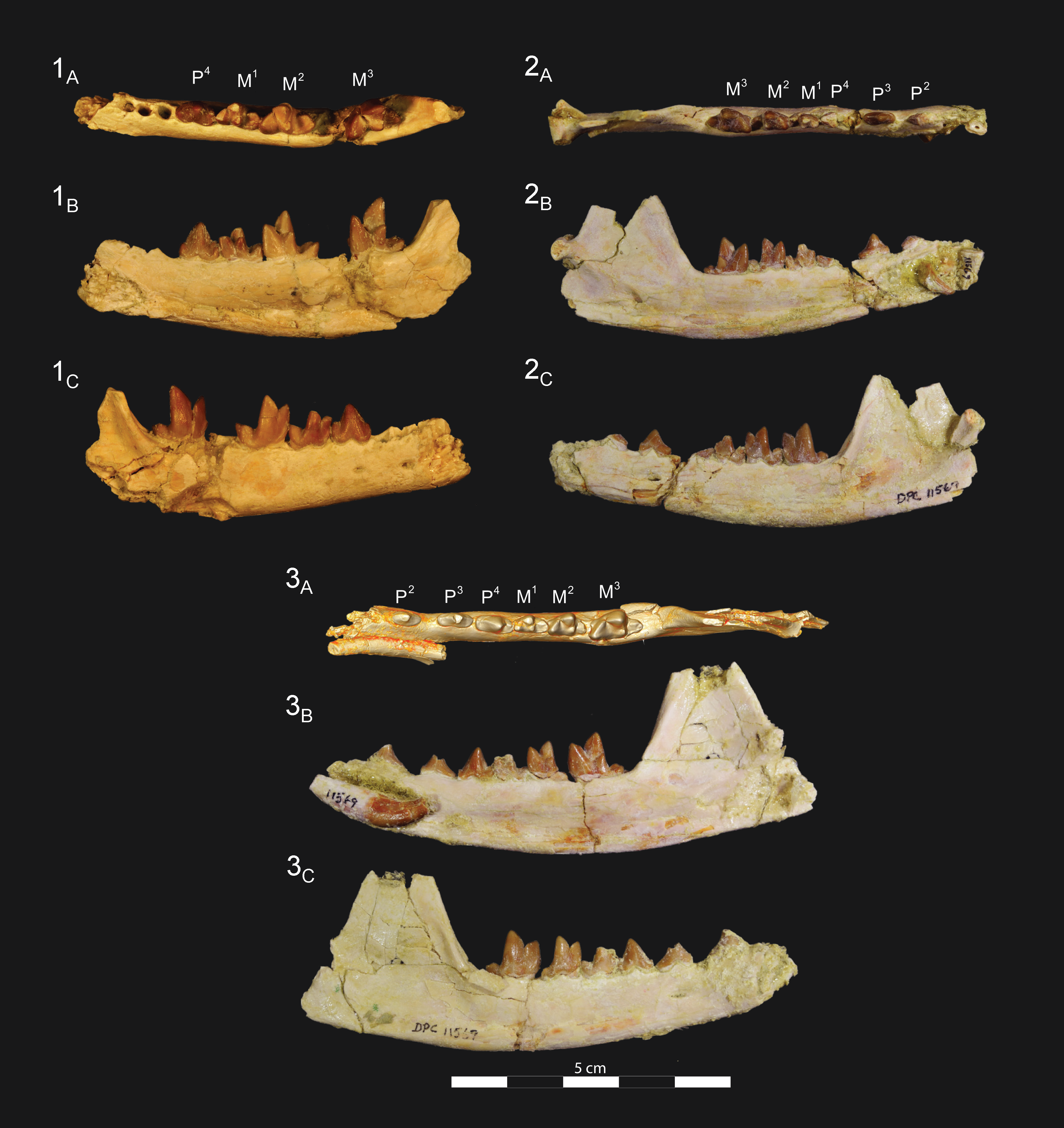 dentaries of Brychotherium 1: DPC 17627 right dentary with P4–M3; 2: DPC 11569B left dentary with C, P2–M3; 3: DPC 11569A right dentary with C, P2–M3; A: occlusal view; B: lingual view; C: buccal view